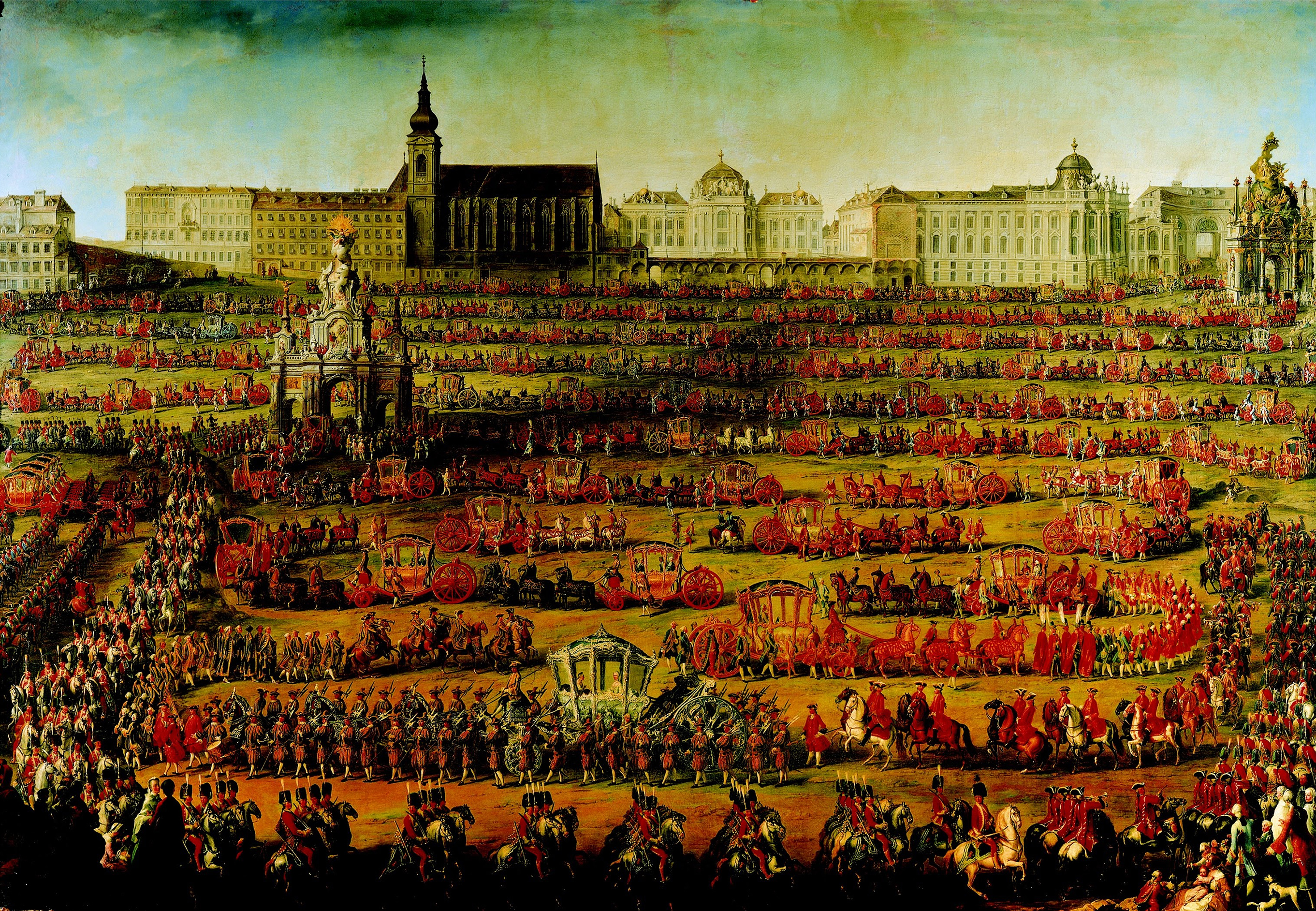 Entry of the Bride. 1763. Martin van Meytens. Oil on canvas. w574 x h402 cm. Schönbrunn Palace via the Google Cultural Institute.